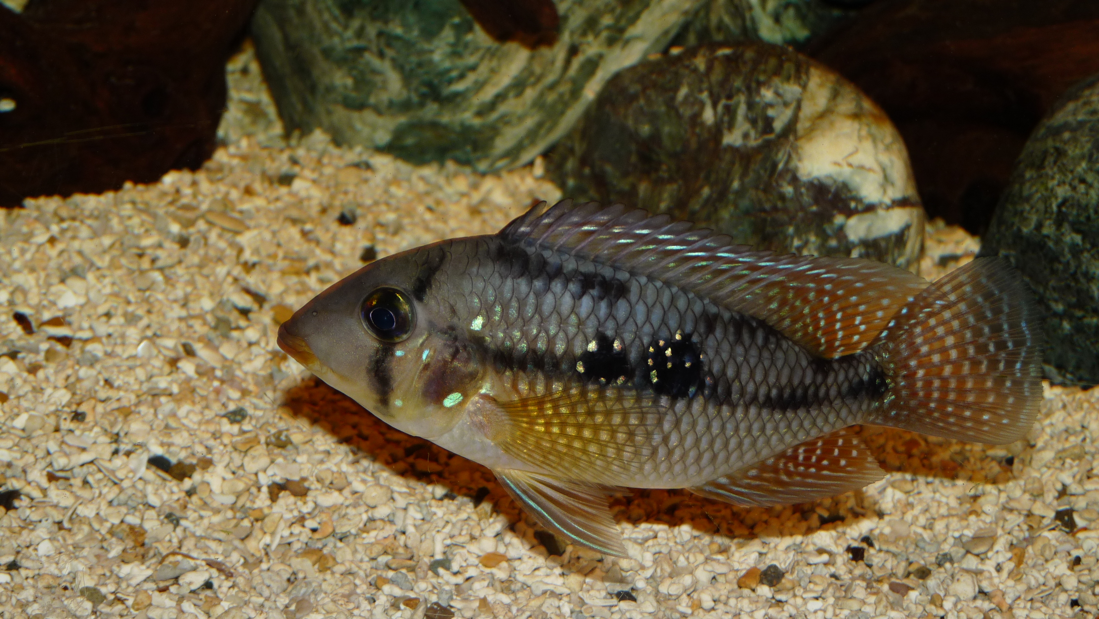 One of my own young Geophagus brasiliensis, sized 8-10cm.